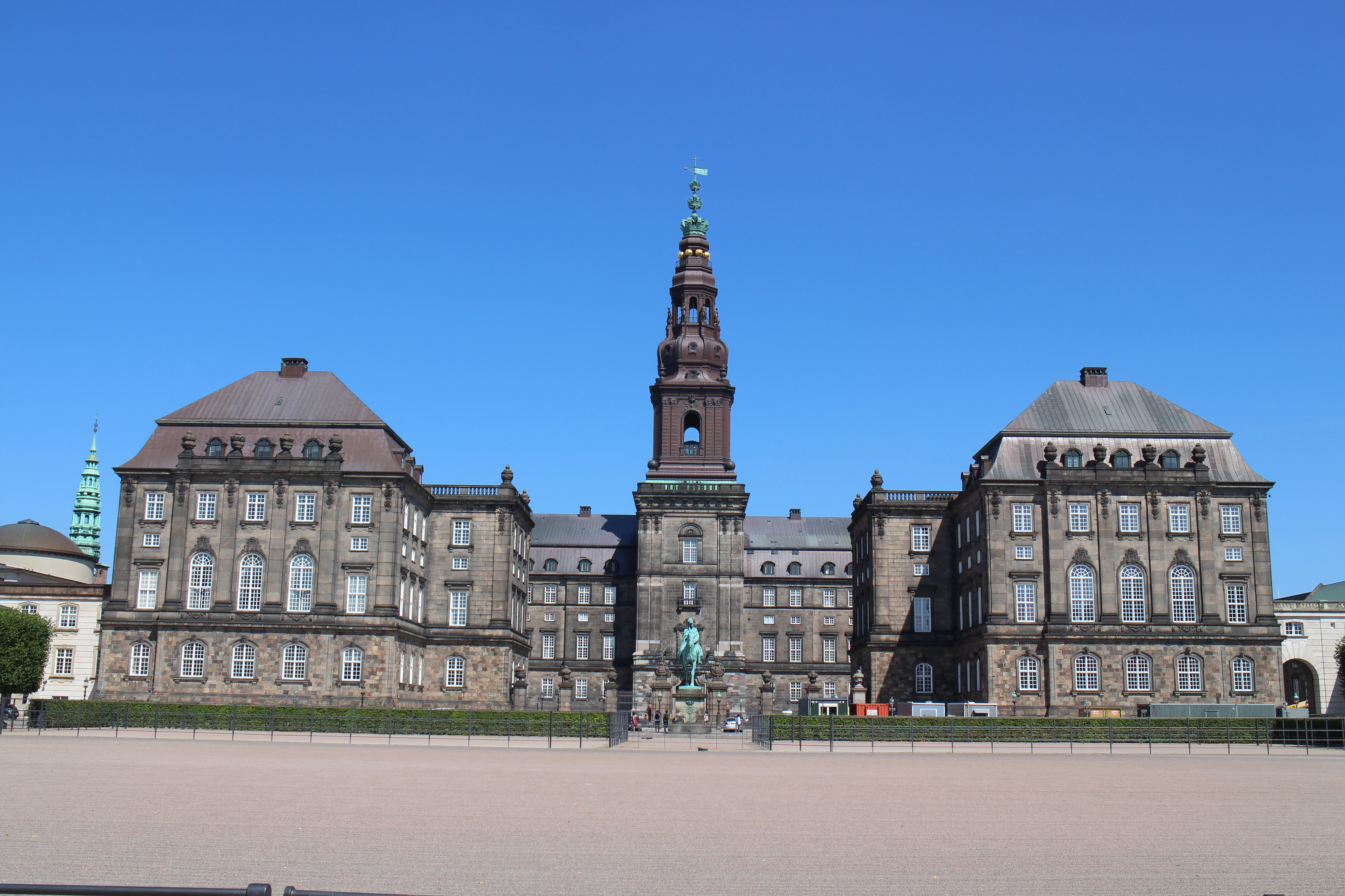 Christiansborg Palace